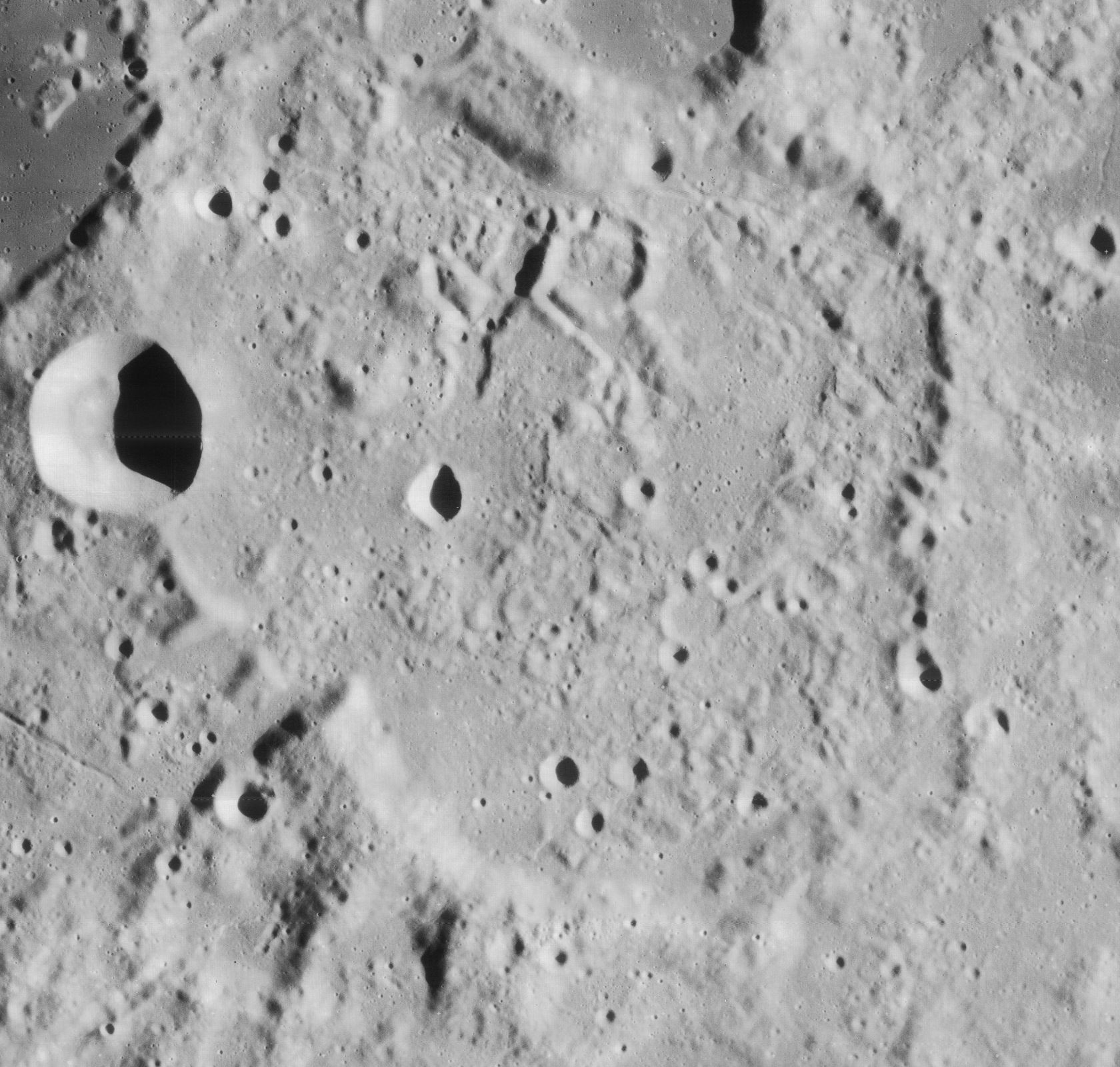 Gerard, on the moon. Gerard A is the prominent smaller crater at left. Gerard E and F are small craters within Gerard.